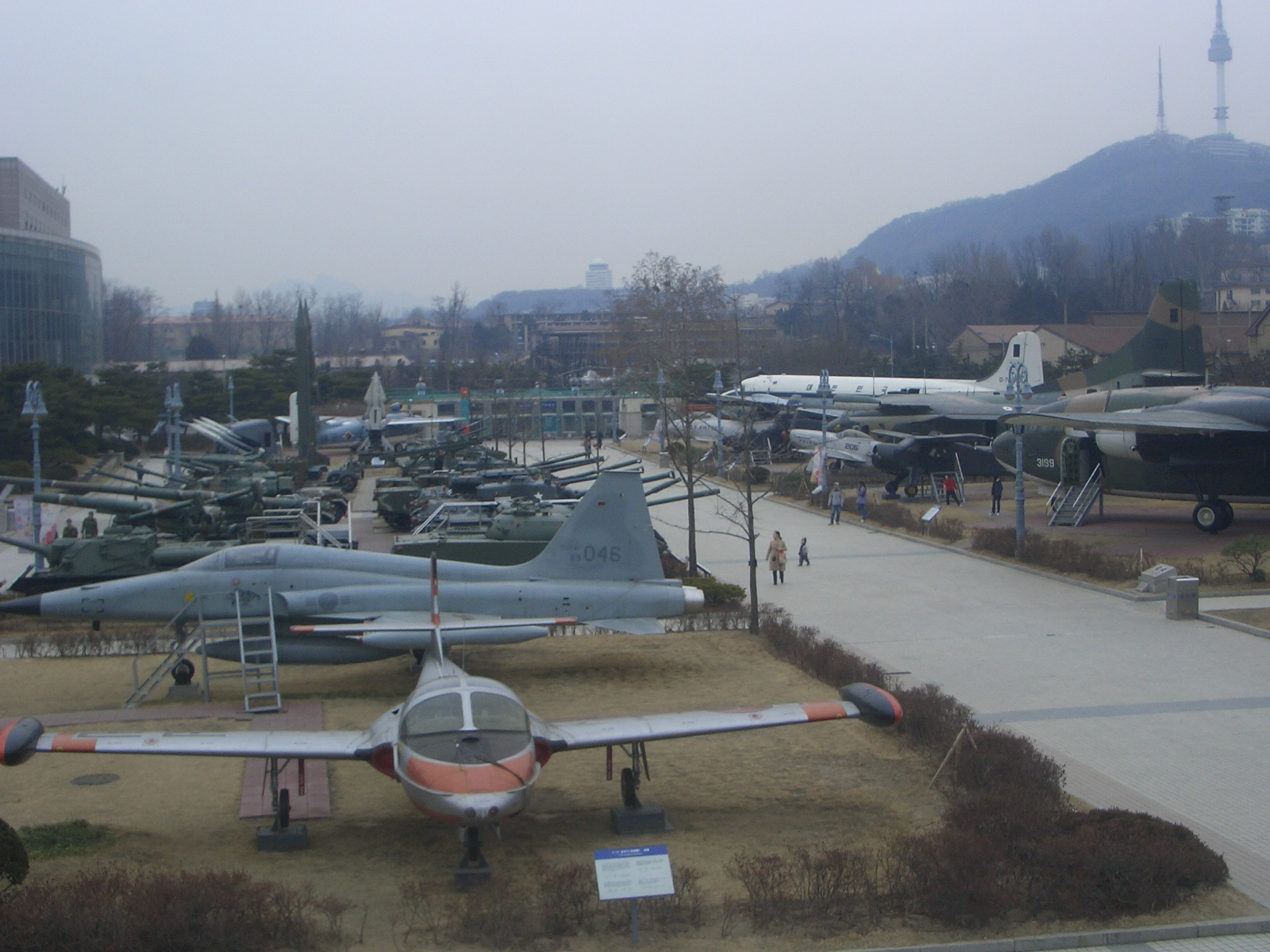 War Memorial of Korea vehicle park